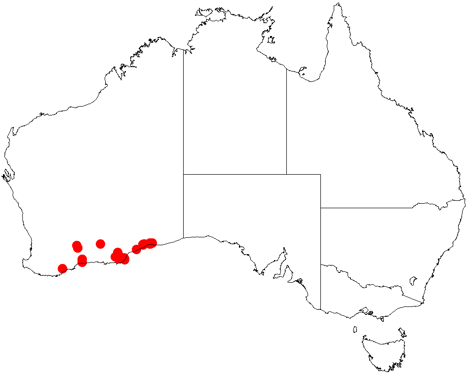 Acacia excentrica occurrence data from Australasian Virtual Herbarium downloaded from on December 8 2018